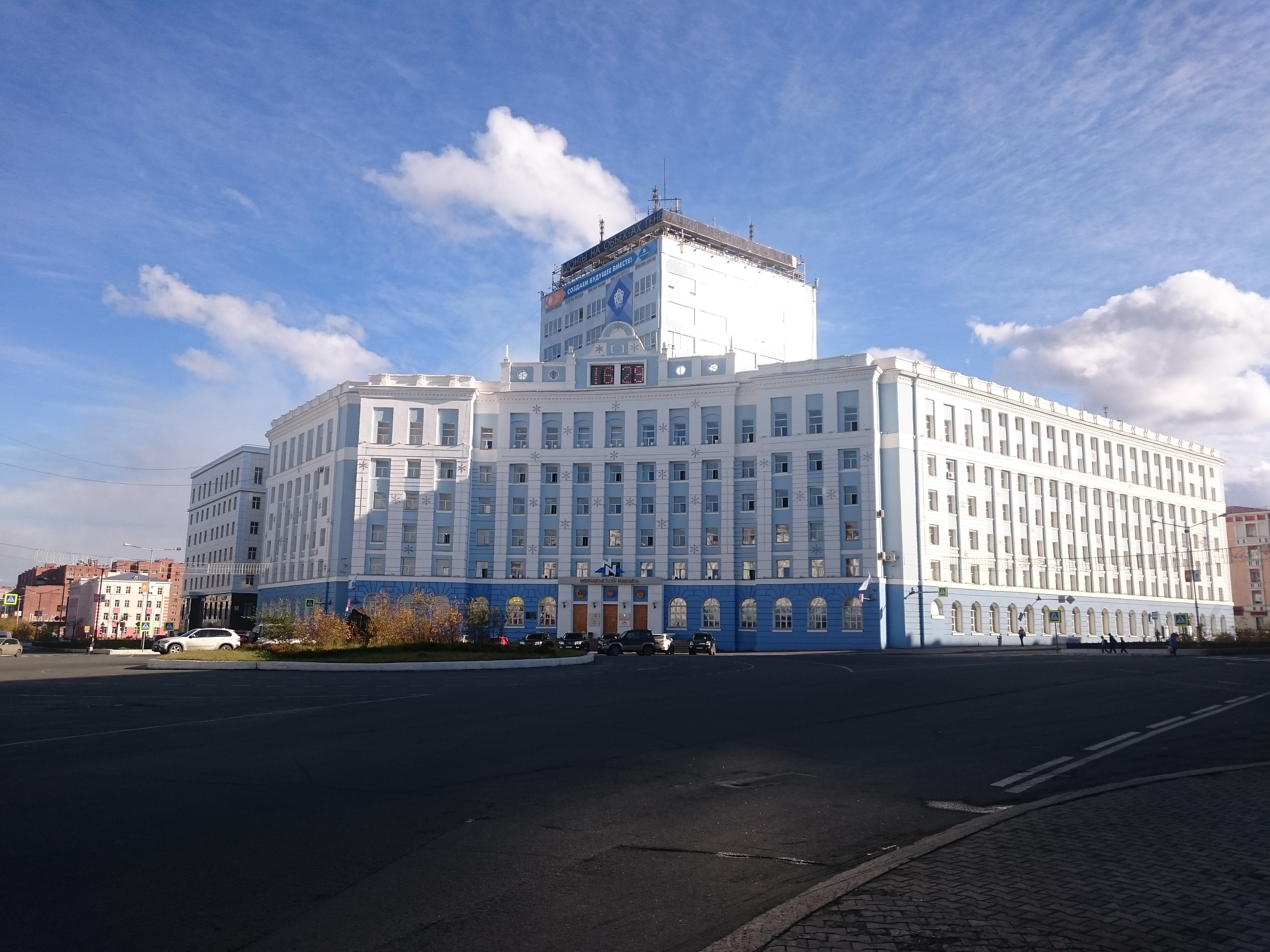 The complex of constructions of the center of the Norilsk (Krasnoyarsk region) — Gvardeyskaya Square